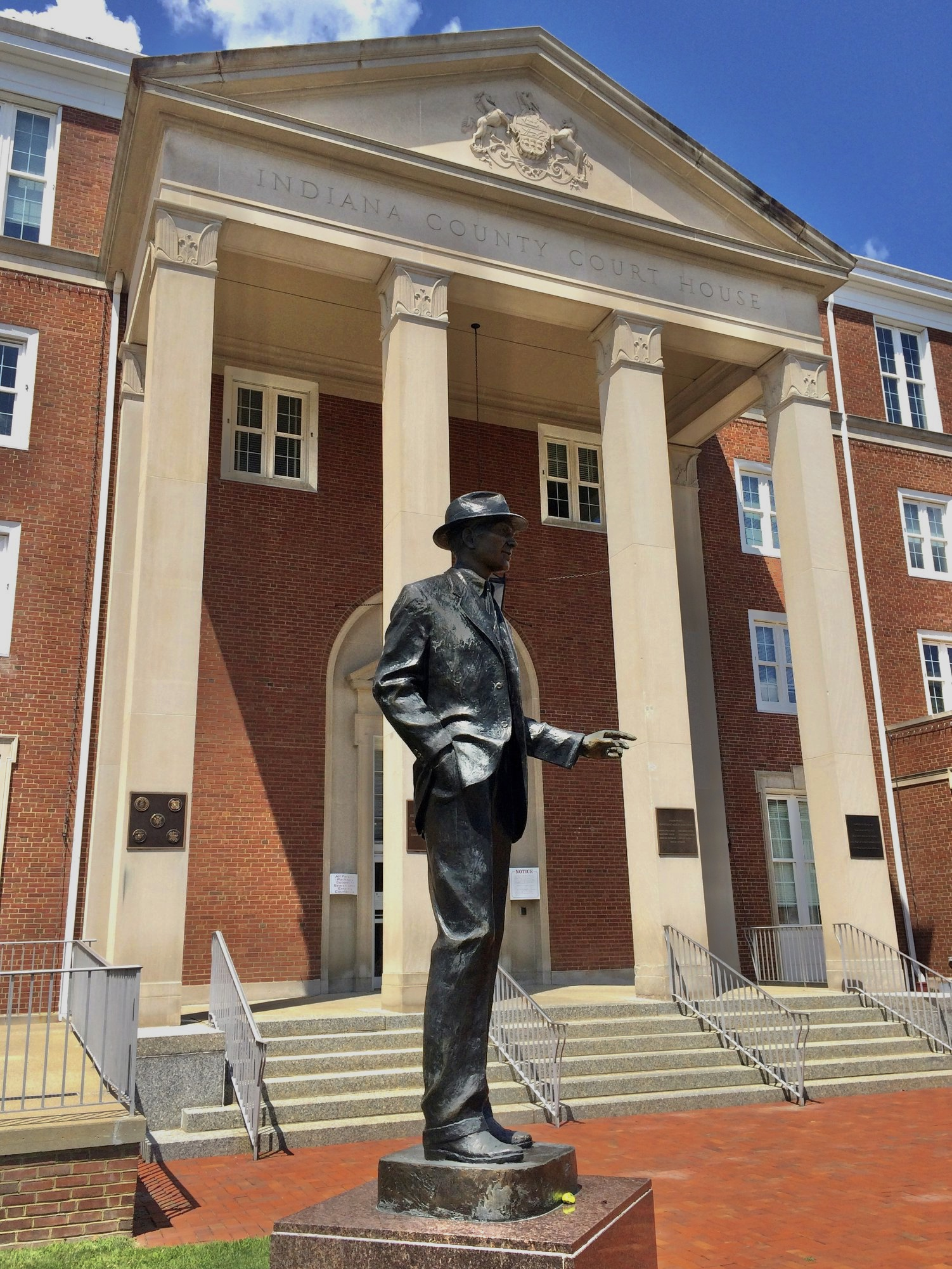 Indiana County Courthouse, Indiana, Pennsylvania, with the statue of locally-born movie star Jimmy Stewart in front.